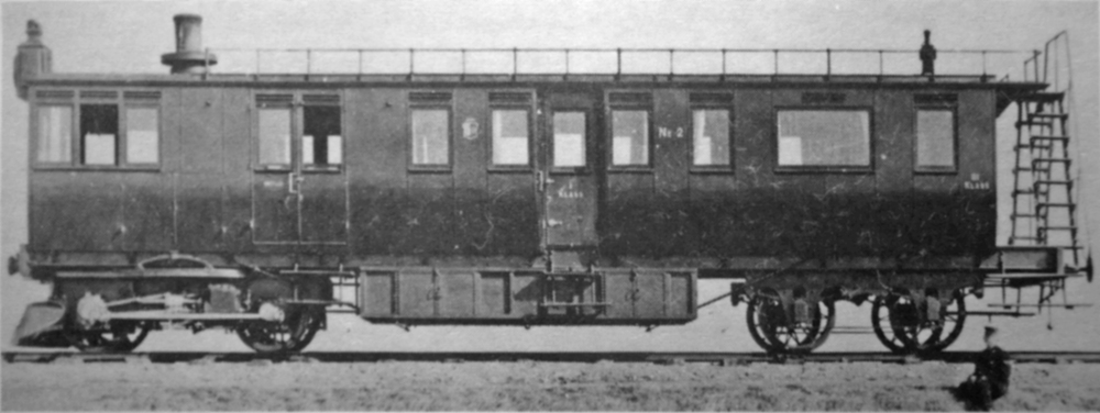 Photo showing a Steam railway car or Steam tram from Gärds Härads Järnväg, Skåne, Southern Sweden. The vehicle represent William Rowan steam tramway system.